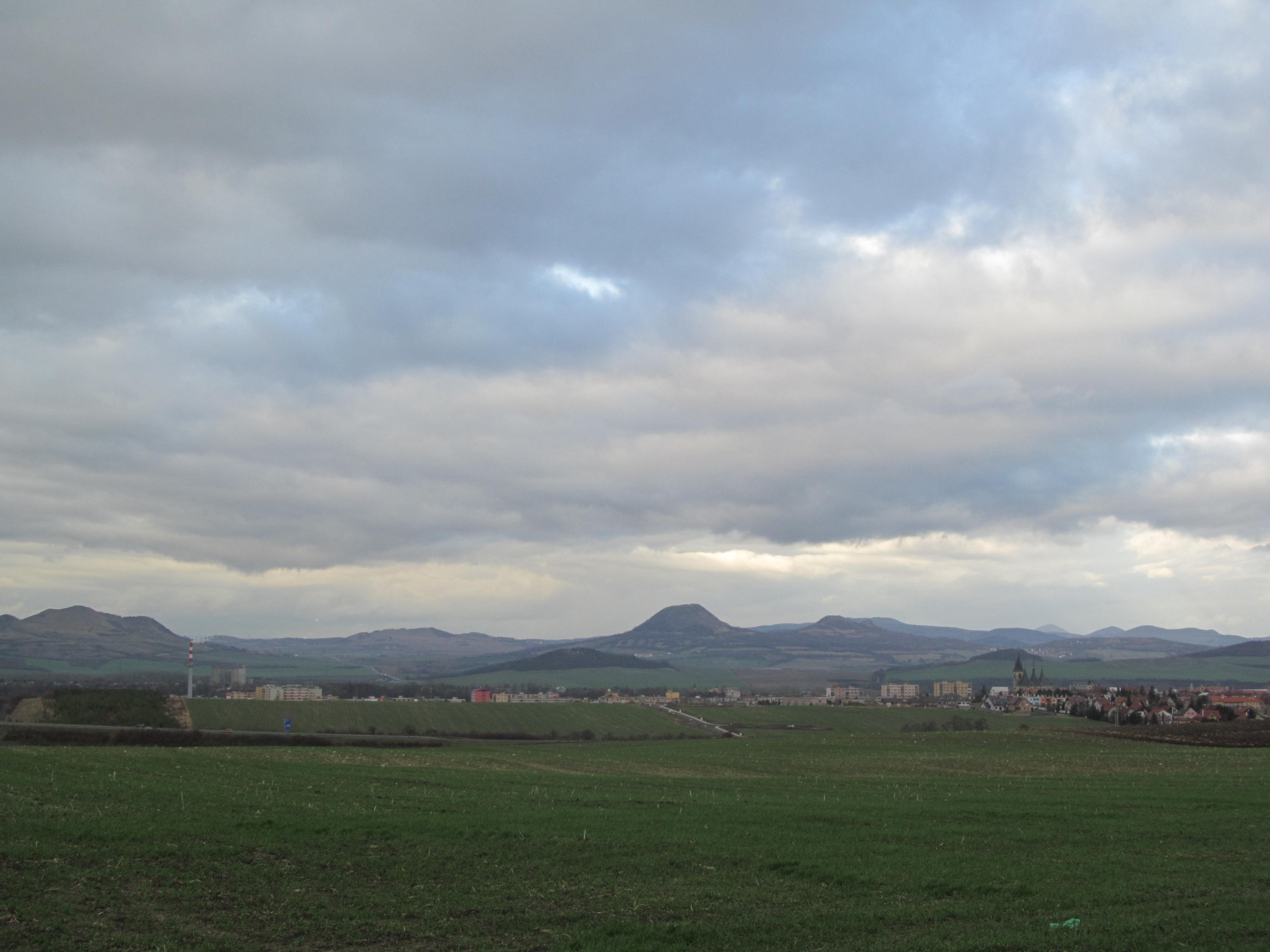 Louny – total view from South